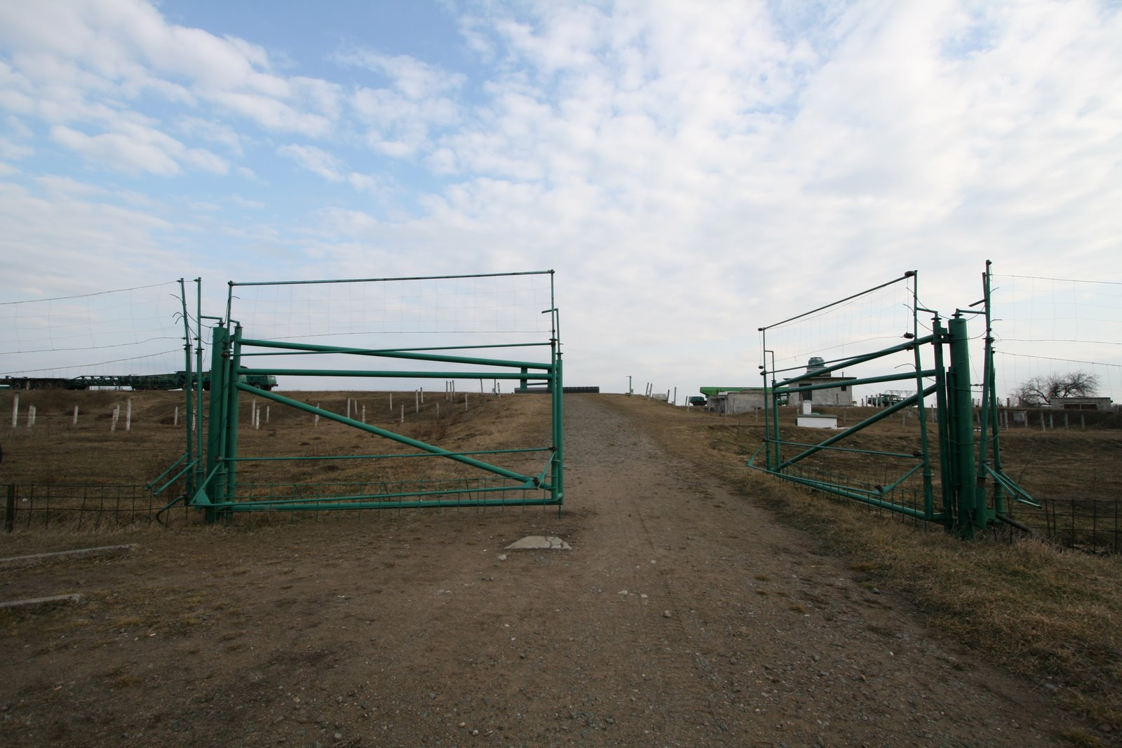 View from the entrance to the protected zone of missile launch site.